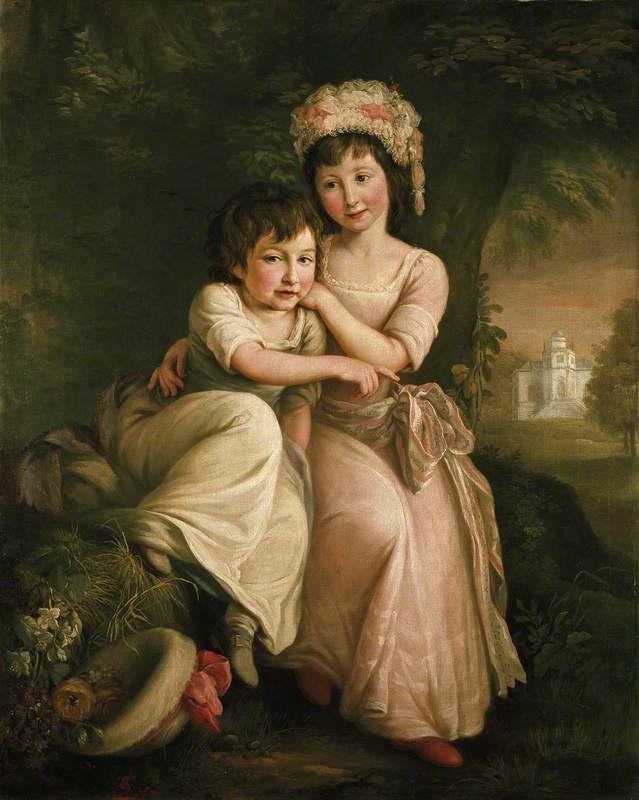 Caption from the museum This portrait, exhibited at the Royal Academy in 1778, shows the children of the artist's brother, James Stephen Rigaud, Astronomer Royal: Stephen Peter Rigaud (1774–1839), who was four, and his elder sister, who was seven. They are seen playfully embracing each other in Richmond Park; the building in the background is Kew Observatory, where their father was employed. S. P. Rigaud spent his later years at Oxford, where he was Savilian Professor of Geometry, 1810–1827 and of Astronomy, 1827–1839.